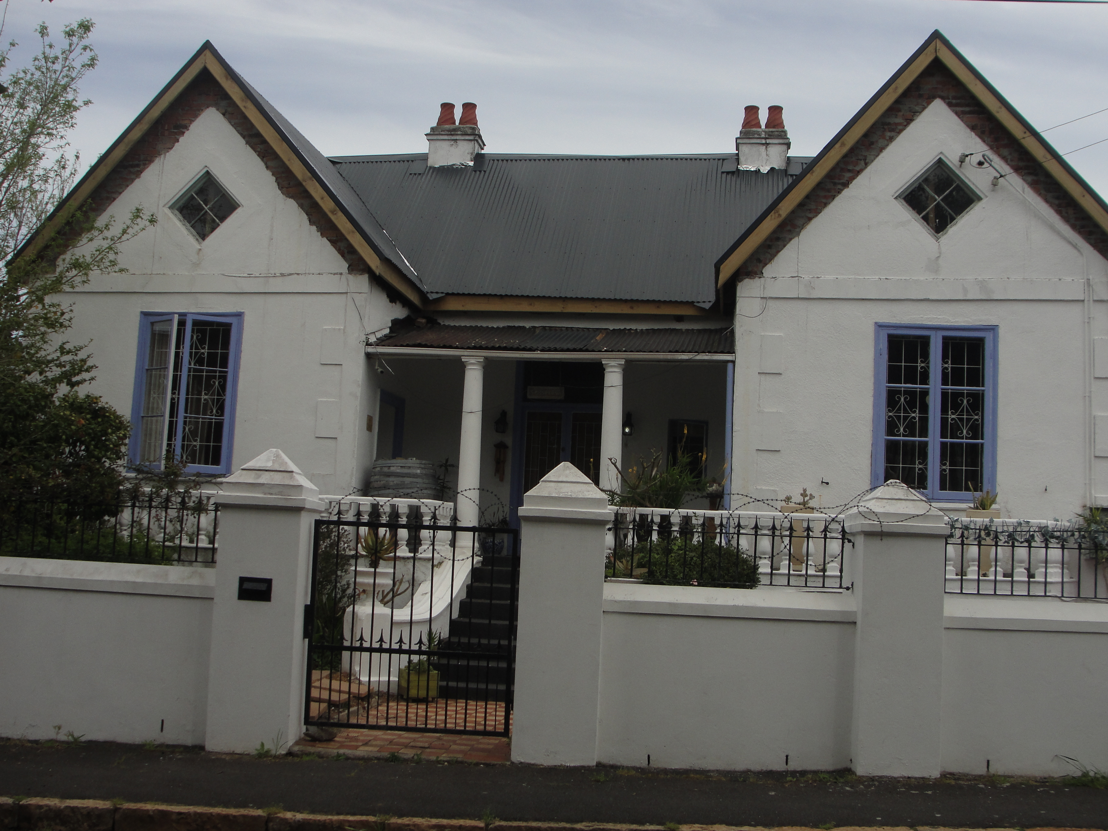 Spes Bona and Unicorn House, cnr Durban and Victoria Road, Wynberg, Cape Town Free-standing single storey Victorianised house with attic now sub-divided into two dwellings with later additions; double pitched corrugated asbestos cement roof with decorative bargeboards. Facade facing Durban Road: two projecting wings with verandah Type of site: House Current use: House. This media shows a South African Protected Site with SAHRA file reference 9/2/111/0002/047.